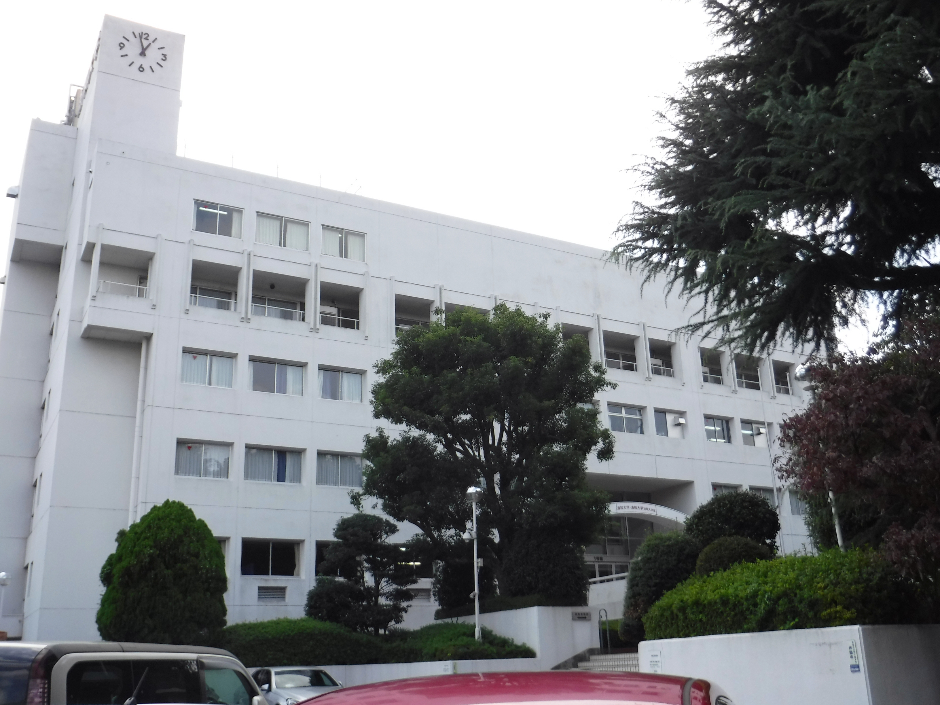 Building #1, Urawa University in Midori-ku, Saitama City (formerly Urawa City), Saitama Prefecture, Japan.